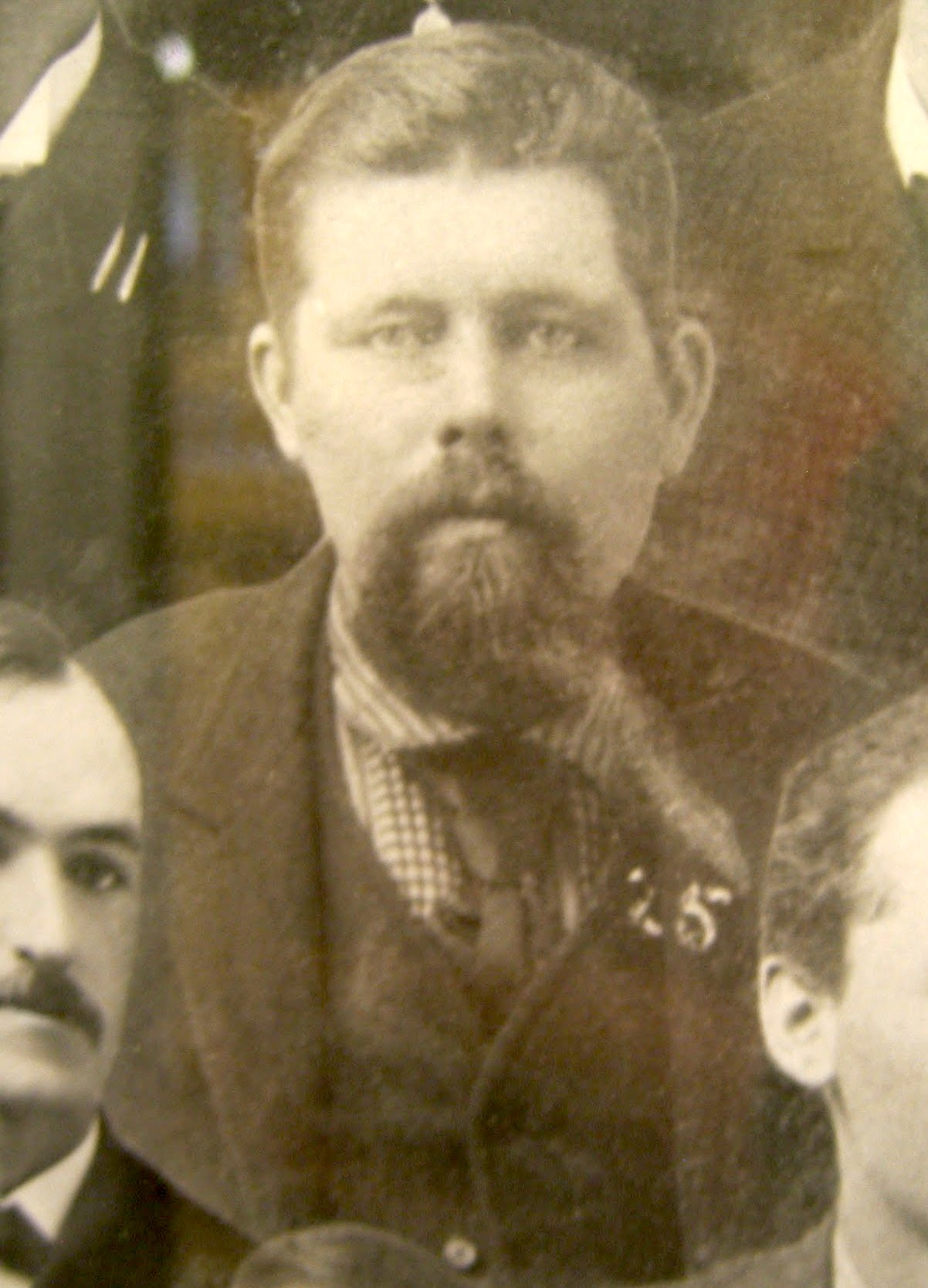 South Dakota legislator in third House session, 1893–1894